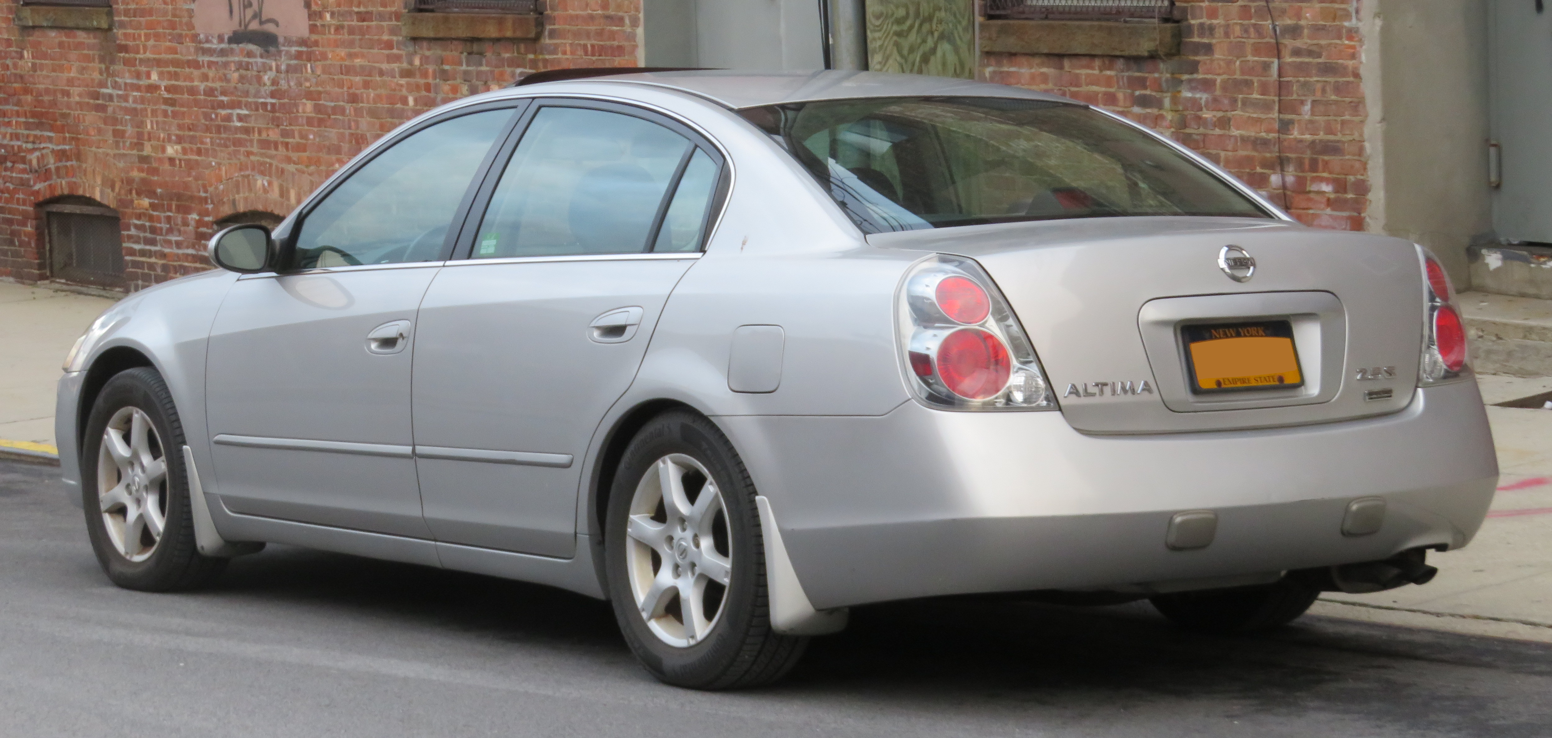 Photographed in College Point(Queens), New York